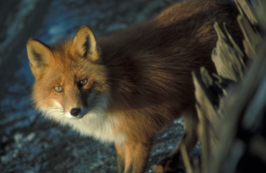 Red Fox at Shipwreck "Courtney Ford" at Glen Island, Alaska, United States